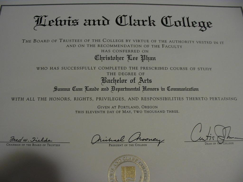 Bachelor’s degree from Lewis & Clark College, Portland, Oregon It wasn’t until a year later than I noticed my name is spelled incorrectly!